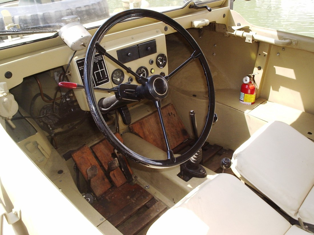 With aftermarket turn signal switch and fire extinguisher. This Schwimmwagen is in Brazil since the 50s.